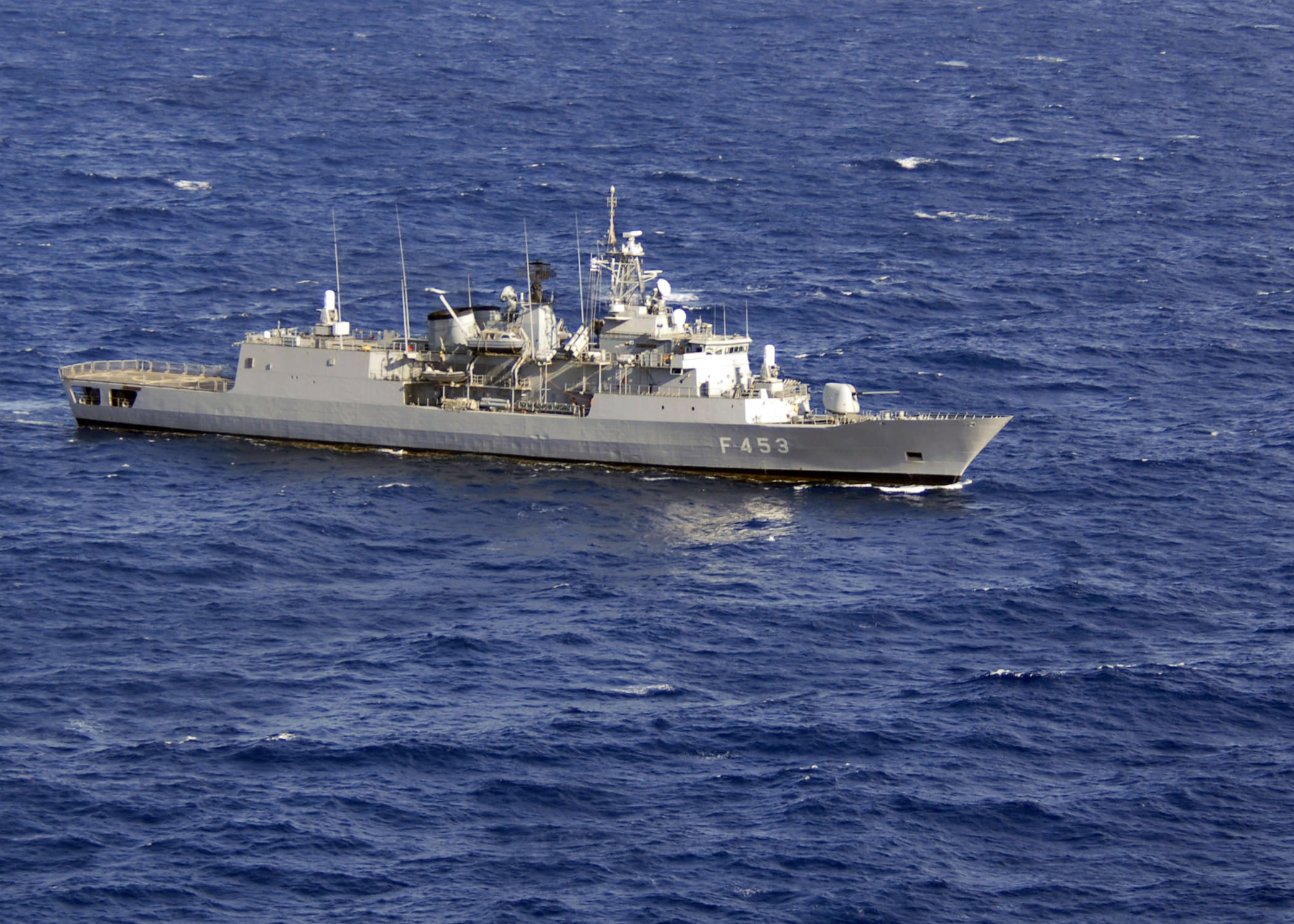 080416-N-9855D-062 MEDITERRANEAN SEA (April 16, 2008): The Greek frigate HS Spetsai, F-453, transits the Mediterranean Sea during Phoenix Express (PE 08).